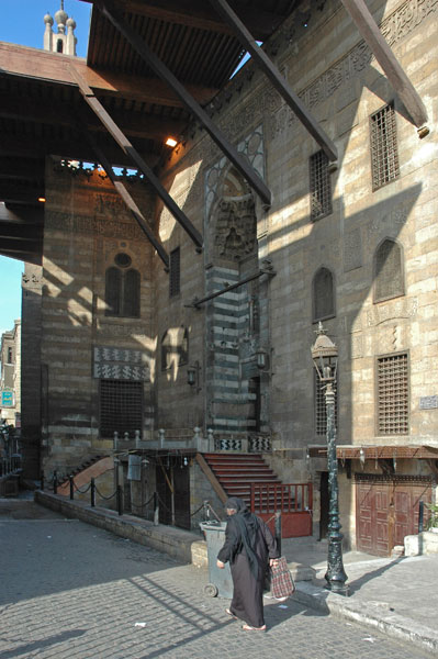 Madrasa of al-Ghuri. Cairo. Egypt